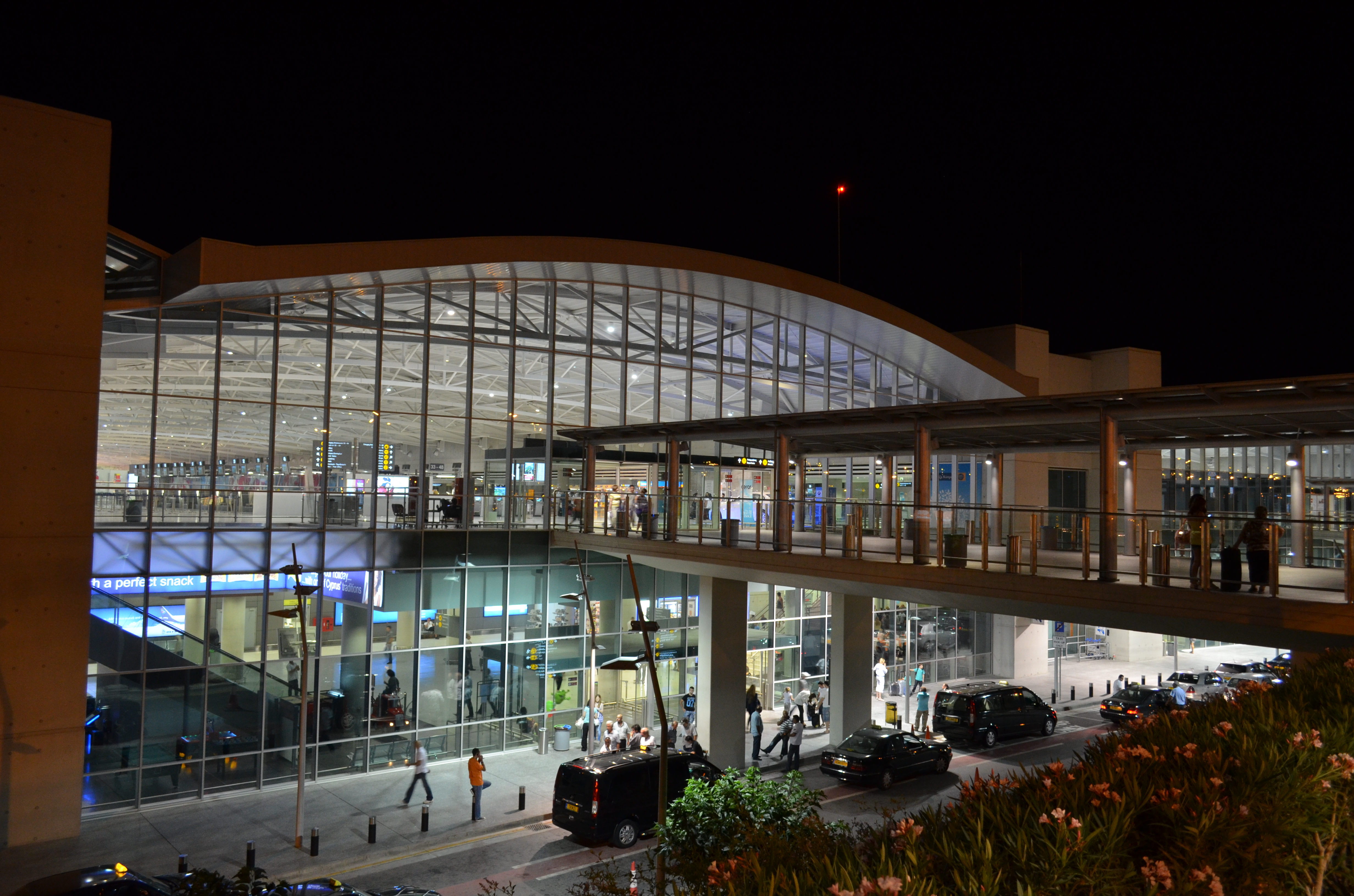 Larnaka International Airport